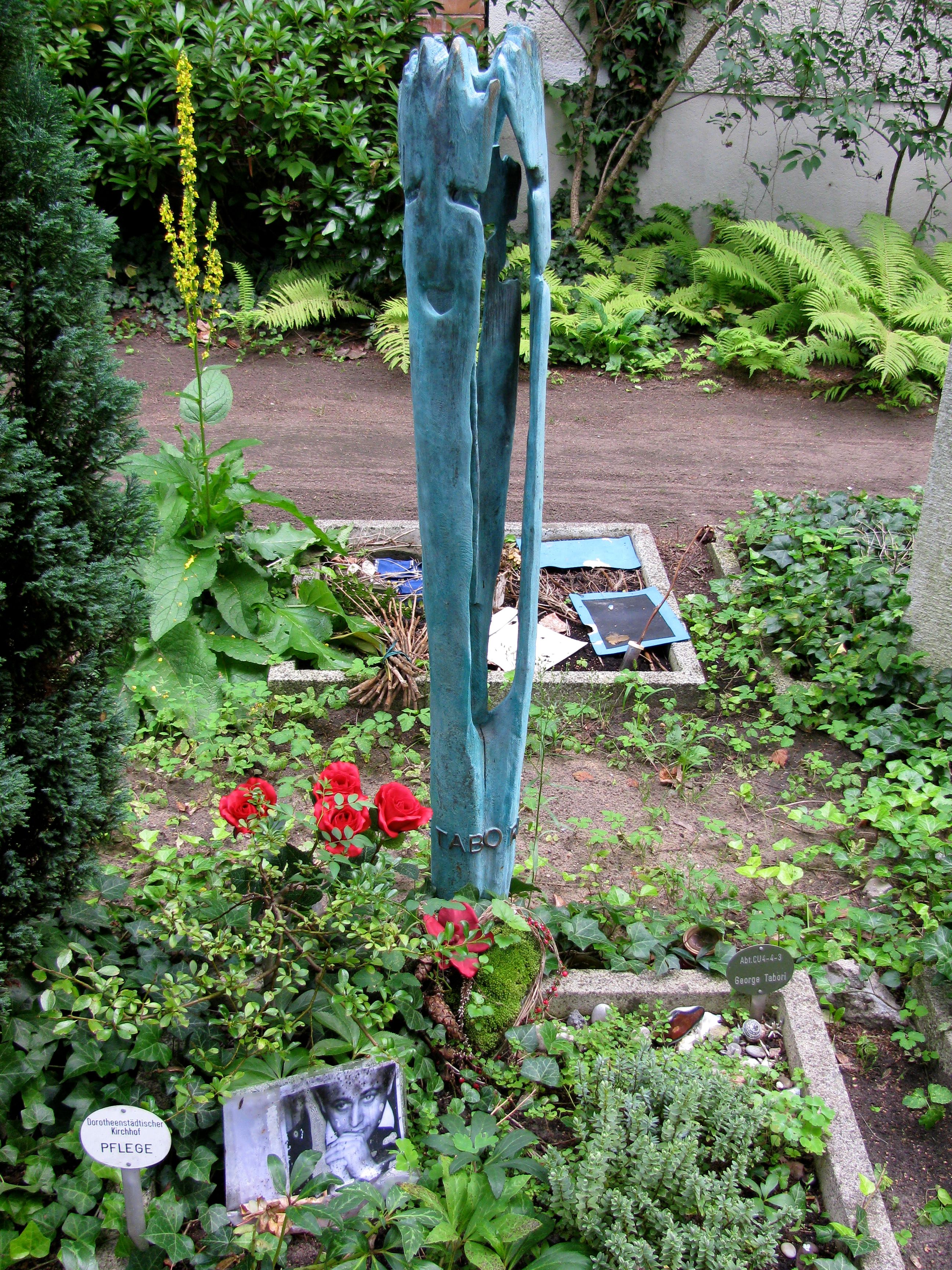 Grave of George Tabori, Dorotheenstädtischer Friedhof Berlin